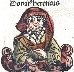 Donatus from the Nuremberg Chronicle 132 verso